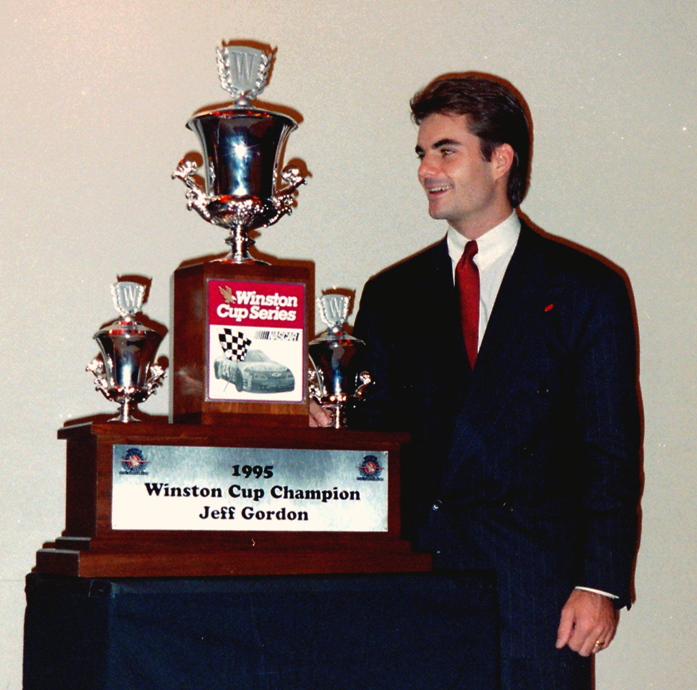 Jeff Gordon beside his 1995 Winston Cup trophy for winning NASCARs premiere division. Taken in 1995 at a private Dupont function, a special event to celebrate his very first NASCAR Winston Cup Championship.